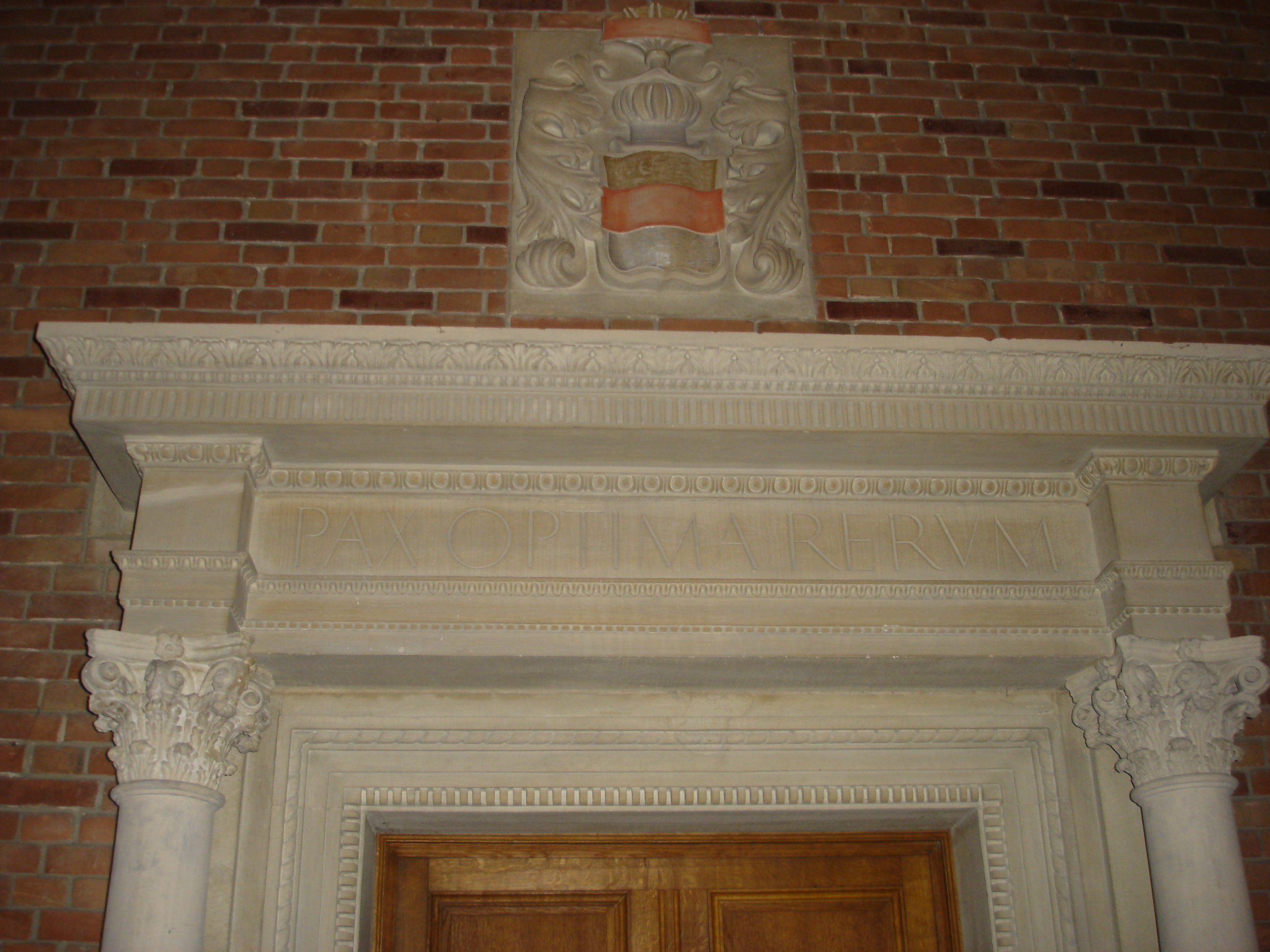 The entrance to the "Friedenssaal" (hall of peace) in the historical city hall in Münster, Westphalia, Germany